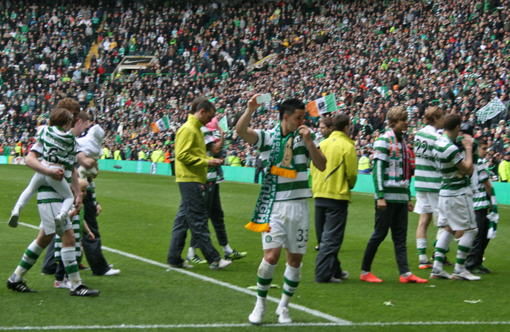 Beram Kayal, player of Celtic F.C.